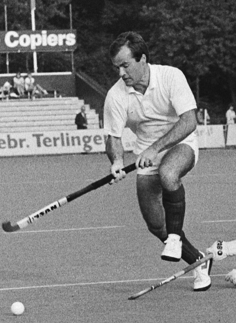 Theo Doyer is scoring 1-0 Netherlands-Belgium